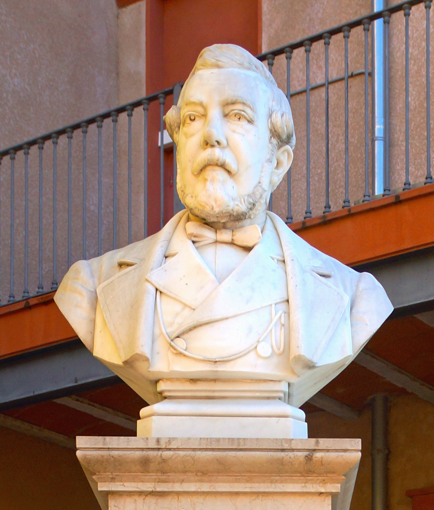 Castelló d'Empúries, Catalonia: Asil Duran, buste from Toribi Duran i Garrigolas